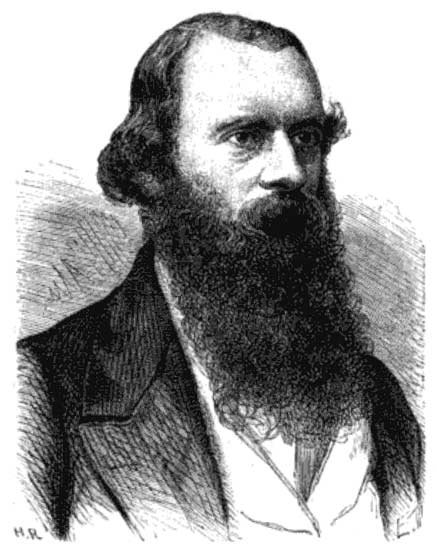 Latimer Clark at the time of the Persian Gulf cable.